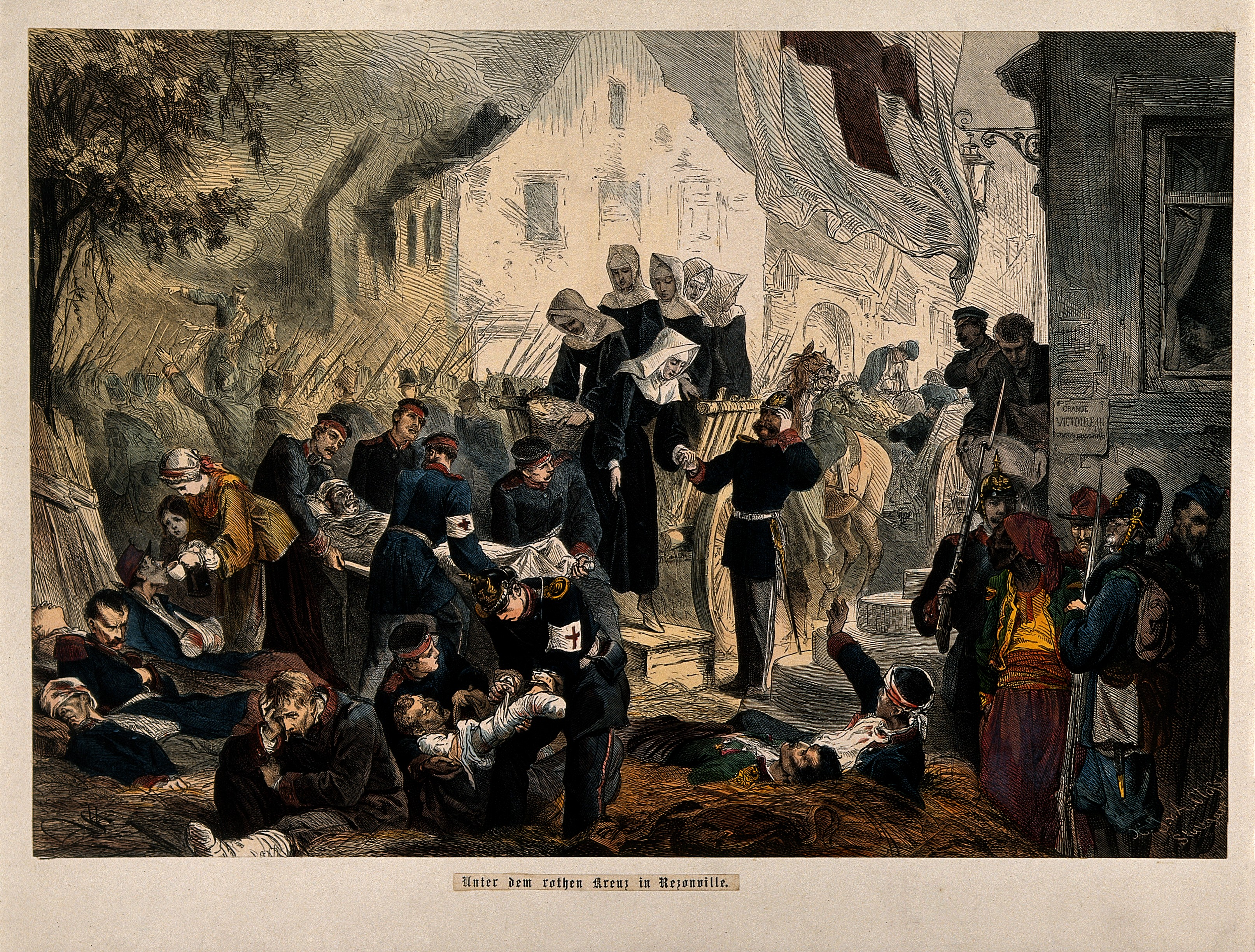 Franco-Prussian War: wounded being treated at Rezonville. Coloured wood engraving by H.I.A. Closs? Iconographic Collections Keywords: H.I.A.? Closs